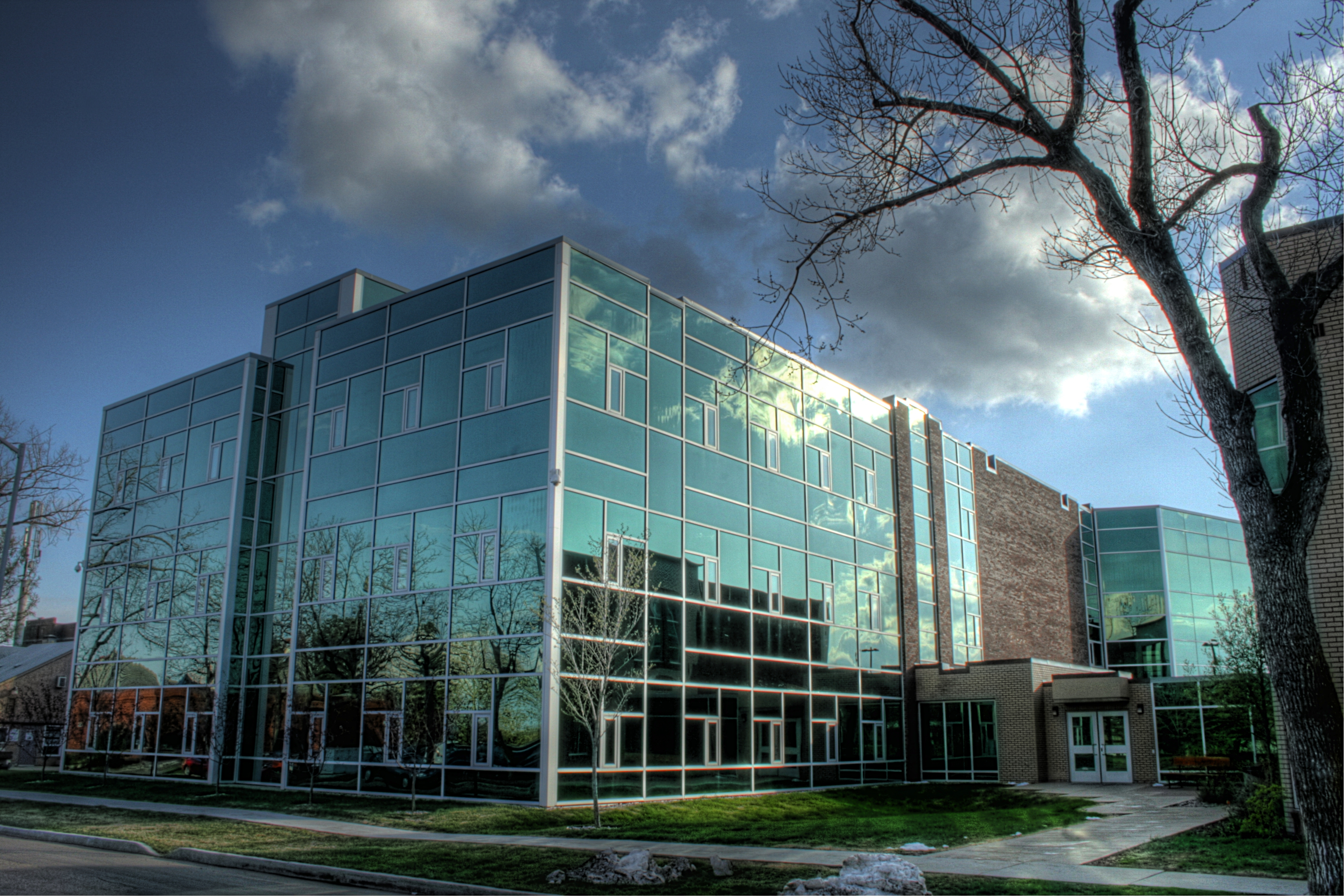 The Hole Academic Centre building on the campus of Concordia University College of Alberta in Edmonton, Alberta, Canada.